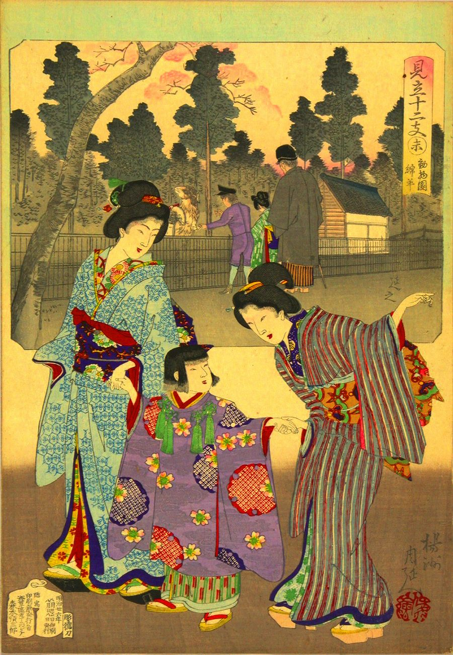 One man in the inset wearing Western-style clothes compared to the women in the main print wearing kimonos.